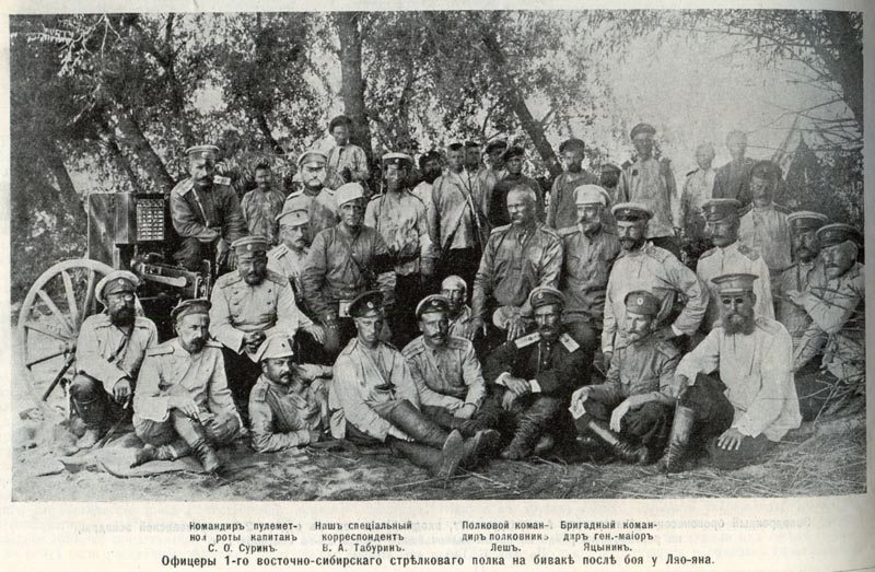 Vladimir Taburin on Russo-Japanese War